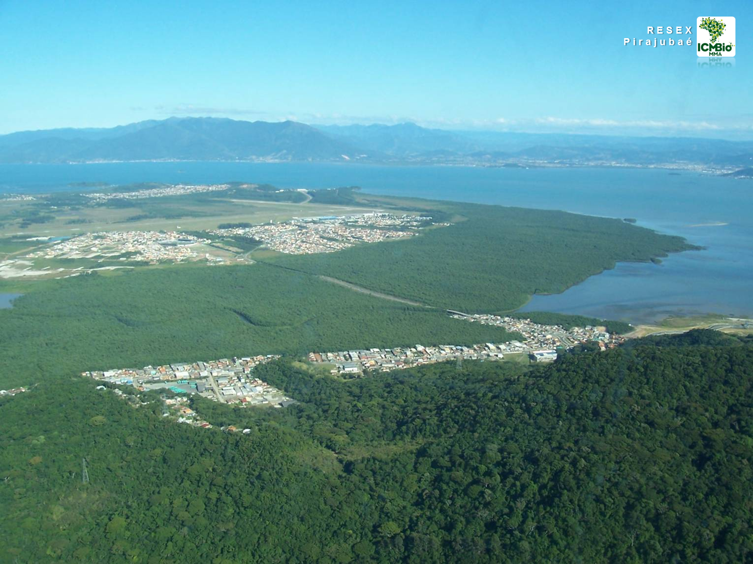 aerial photo